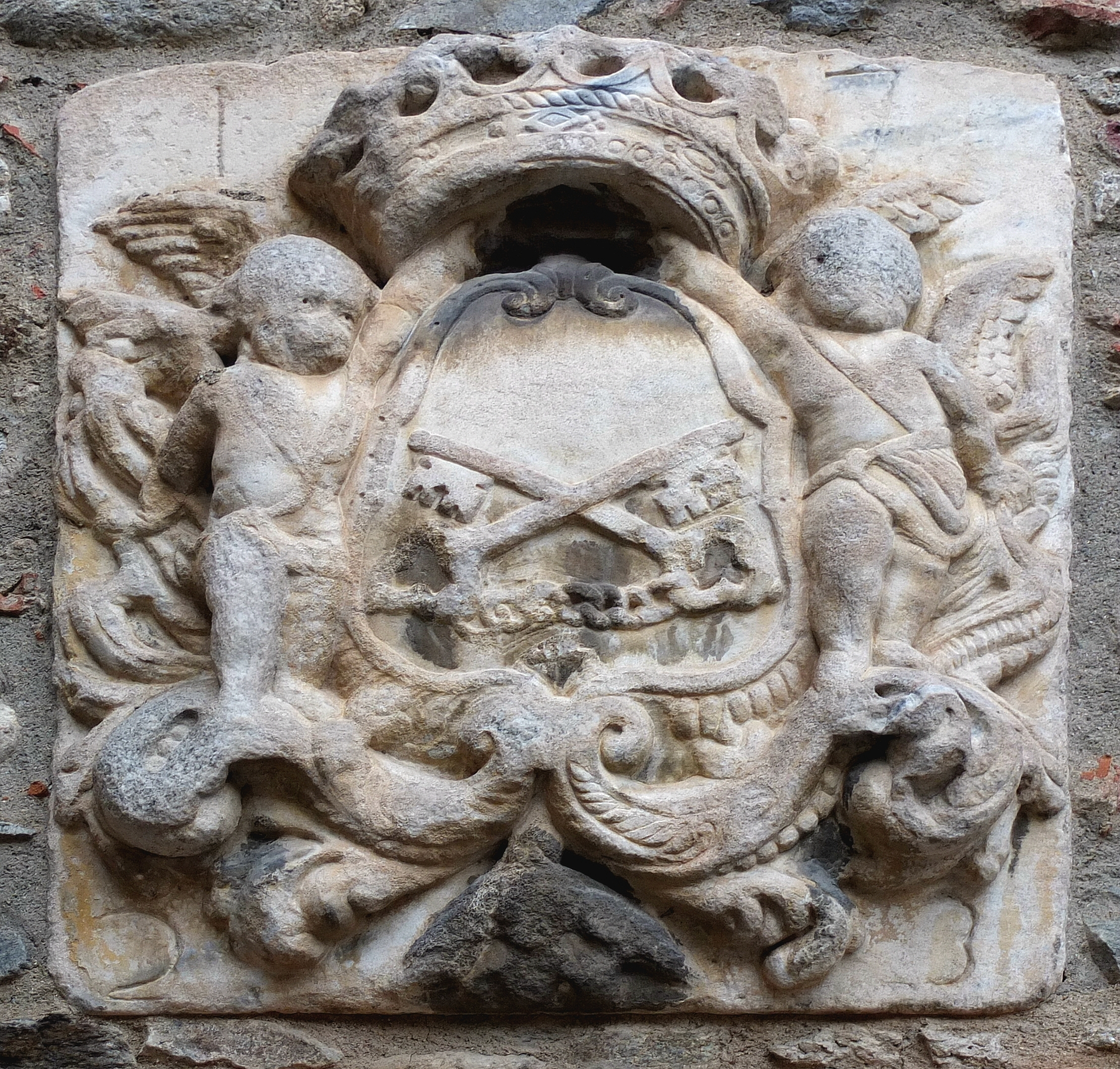 Coat of arms of the town of Céret (France), crossed keys surrounded by two Putti holding a crown. Dated 1723.